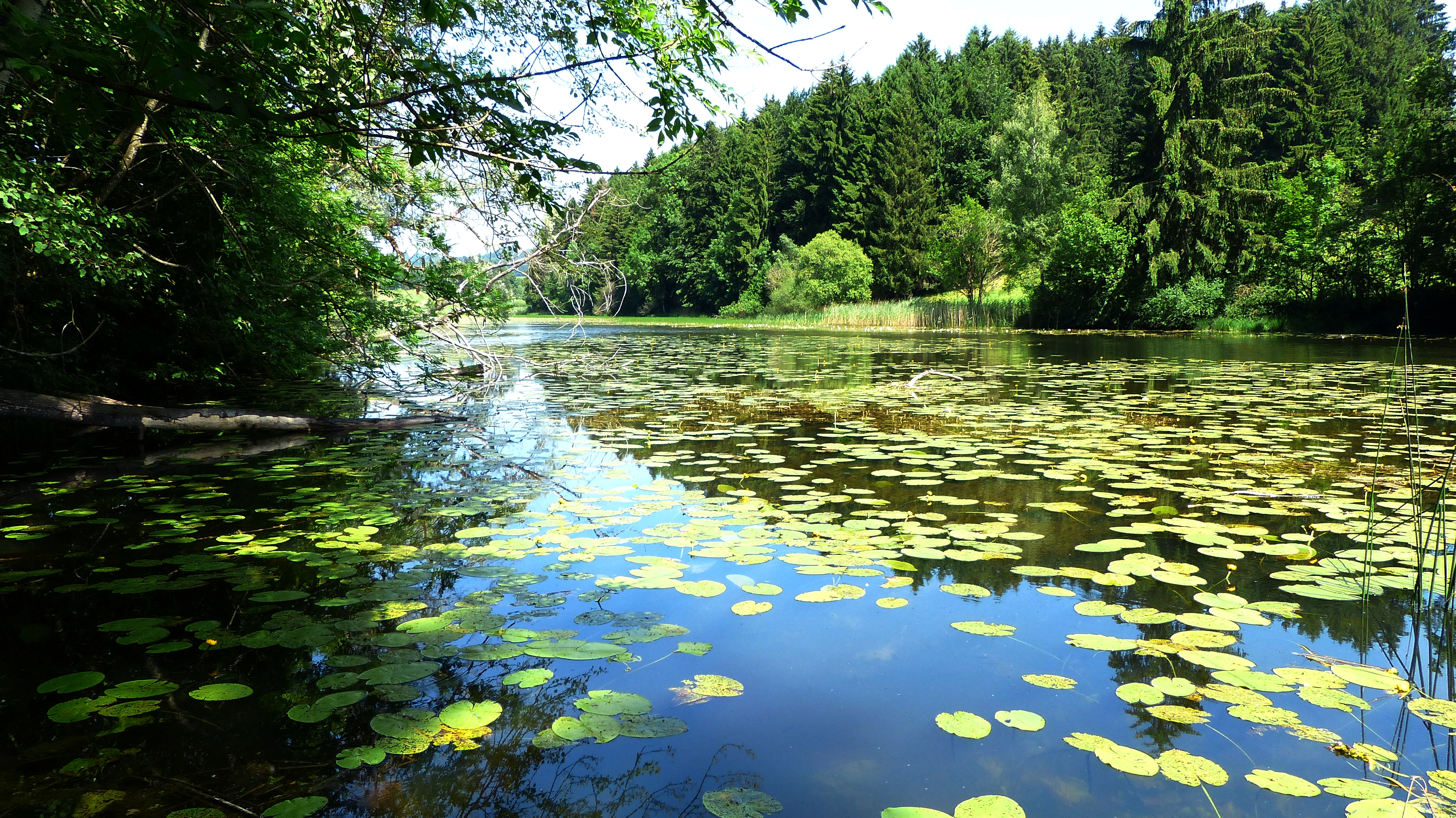 View from the west bank of the lake Widdumer Weiher in the nature reserve Widdumer Weiher